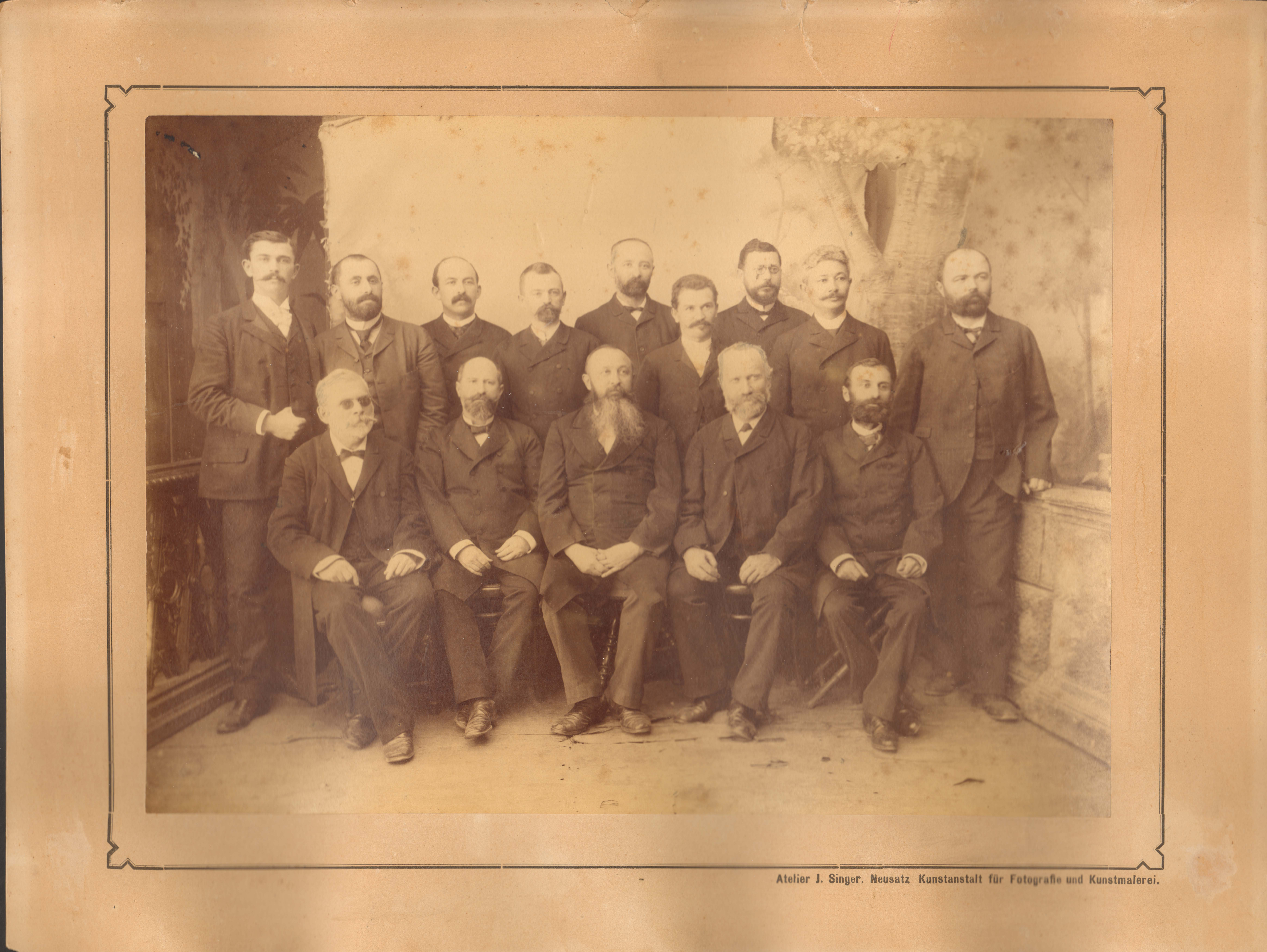 Photo of the Collegium of professors of the Serbian Orthodox Gymnasium in Novi Sad (1891) Srpski (latinica): Fotografija profesorskog kolegija Srpske pravoslavne velike gimnazije u Novom Sadu (1891)